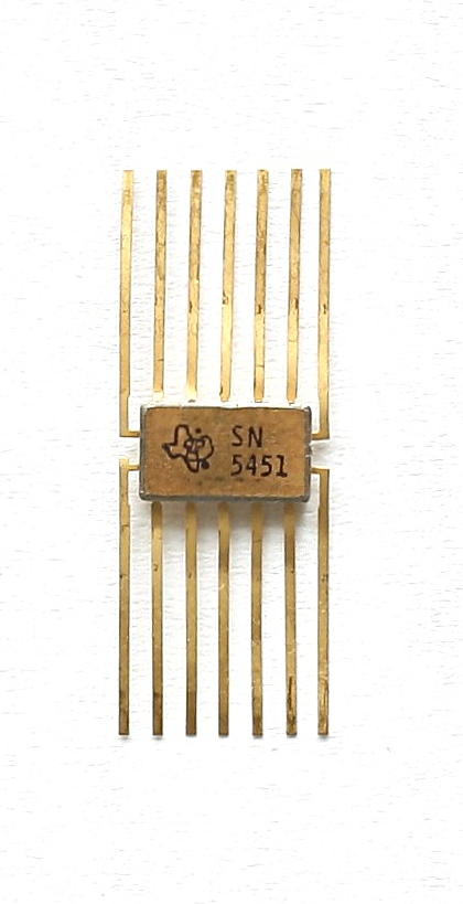 Logic IC Texas Instruments SN5451.